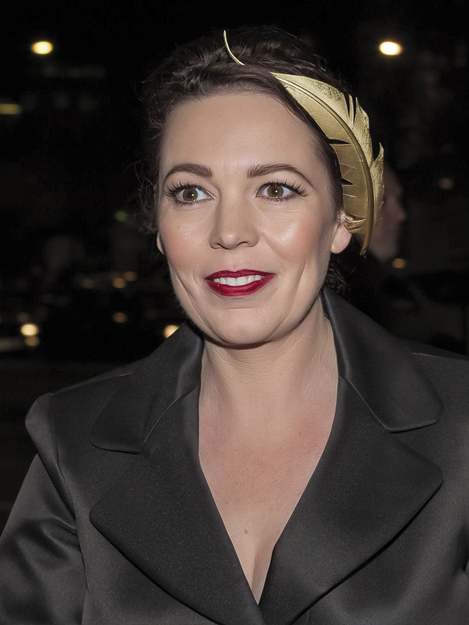 Olivia Colman at Moet BIFA 2014